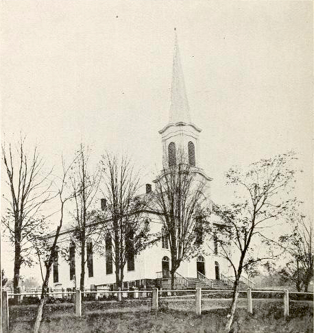 Readington Reformed Church in Readington, New Jersey from 1719–1894 anniversary book. Shows steeple that was blown down in 1913.